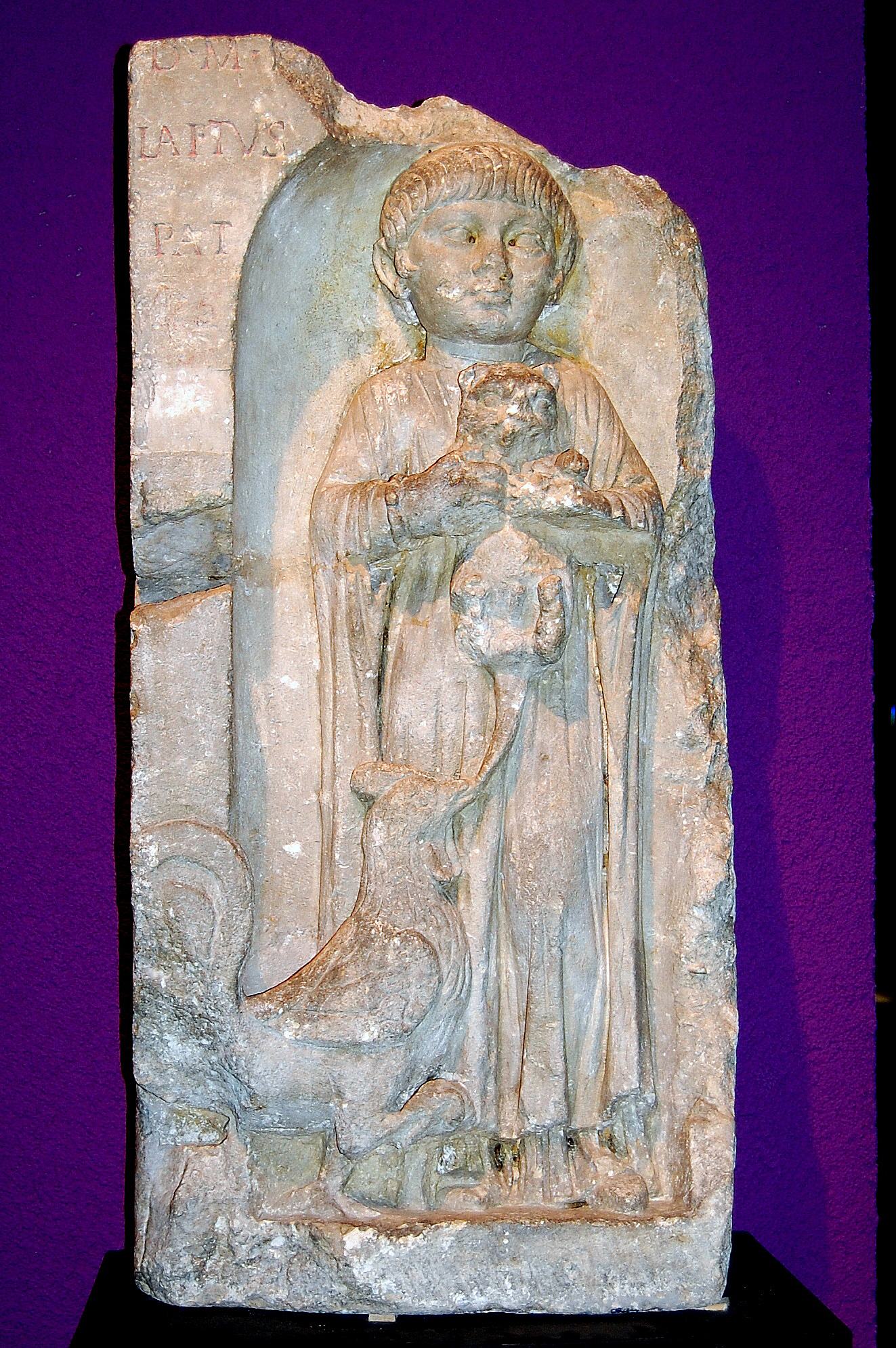 Ancient Roman funerary stele of a little girl musée d'Aquitaine, Bordeaux, France